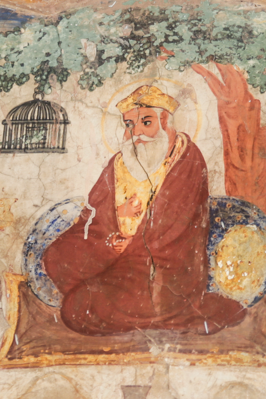 A rare early 19th century mural painting from Gurdwara Baba Atal depicting Guru Nanak